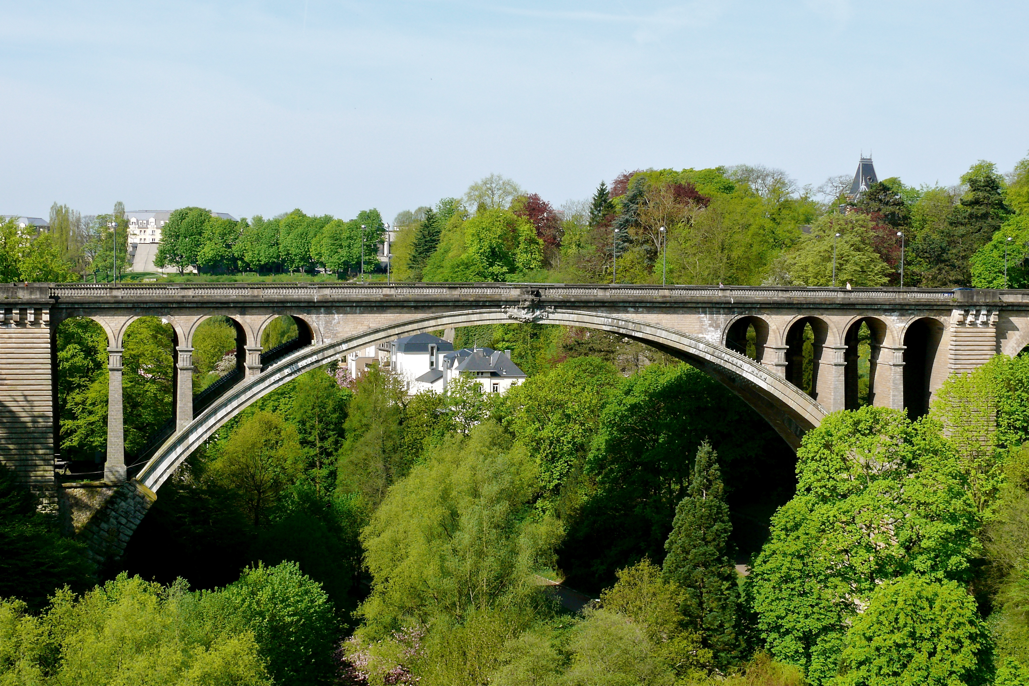 PONT ADOLPHE in Luxembourg City